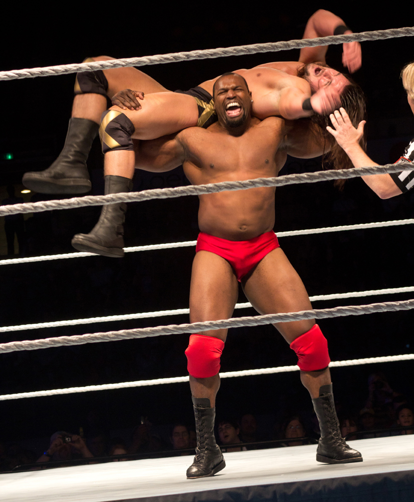 Ezekiel Jackson submits Drew McIntyre with his variation of the Torture Rack. Taken January 7, 2012 during a WWE SmackDown live event in Montgomery, Alabama.